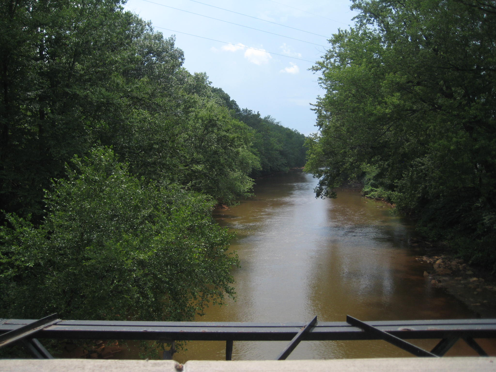 View Lackawanna River looking toward the Confluence (~4000 ft [~1219.2 m] away) with the Susquehanna River (ahead and Right, just out of sight beyond rail bridges to Duryea Yard (~2,000 feet [~610 m] away). (41°20′46″N 75°46′50″W / 41.346135°N 75.780481°W) (See Category:Duryea Yard)